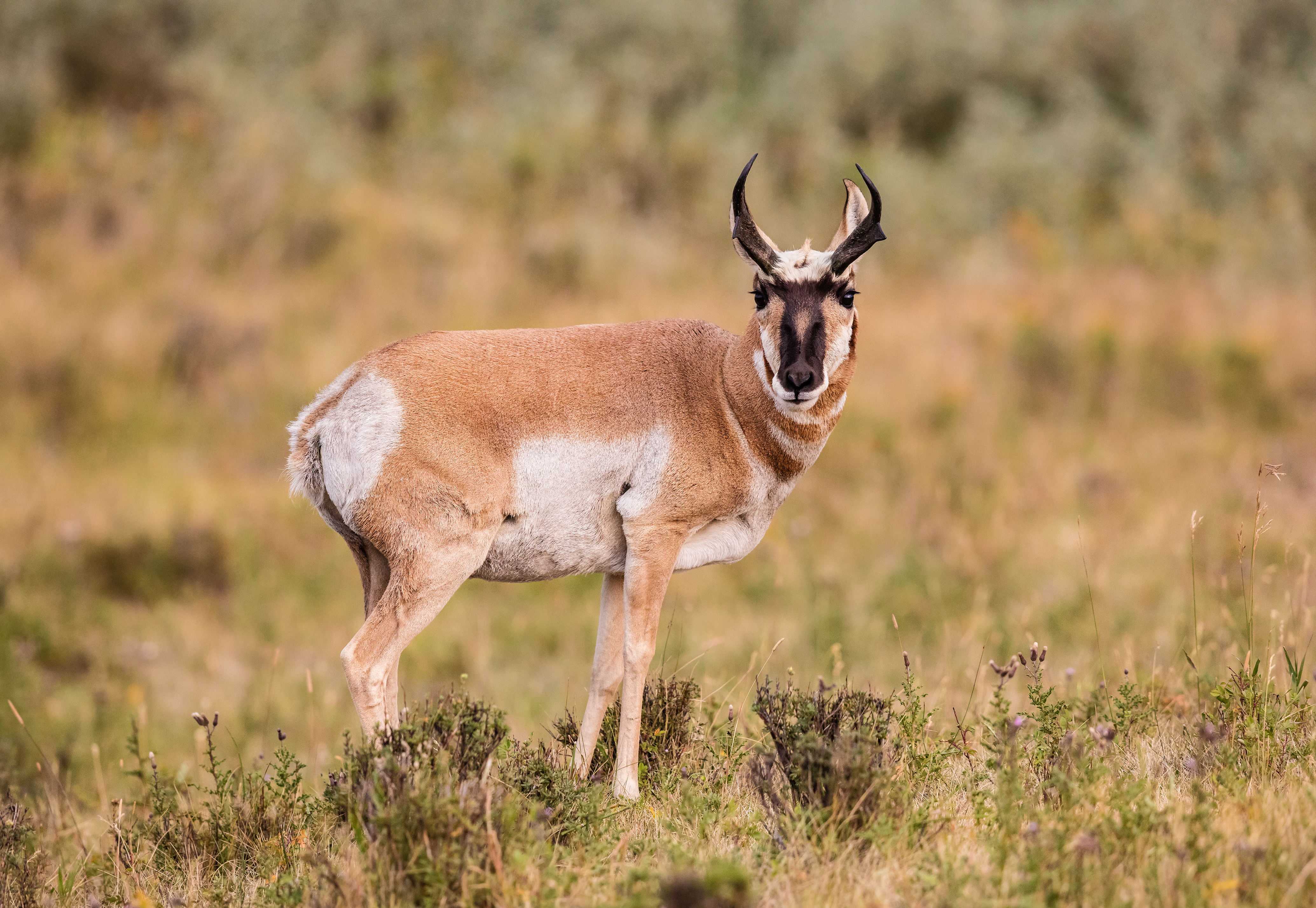 Pronghorn (Antilocapra americana) in Lamar Valley, Yellowstone National Park, USA